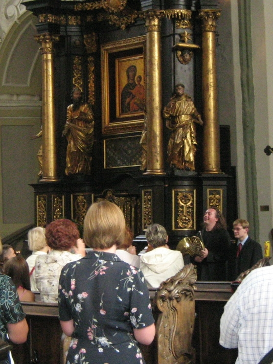 Dariusz Mikulski and Piotr Michna – artists performing a concert during St. Dominic's Fair in Gdańsk 2010.